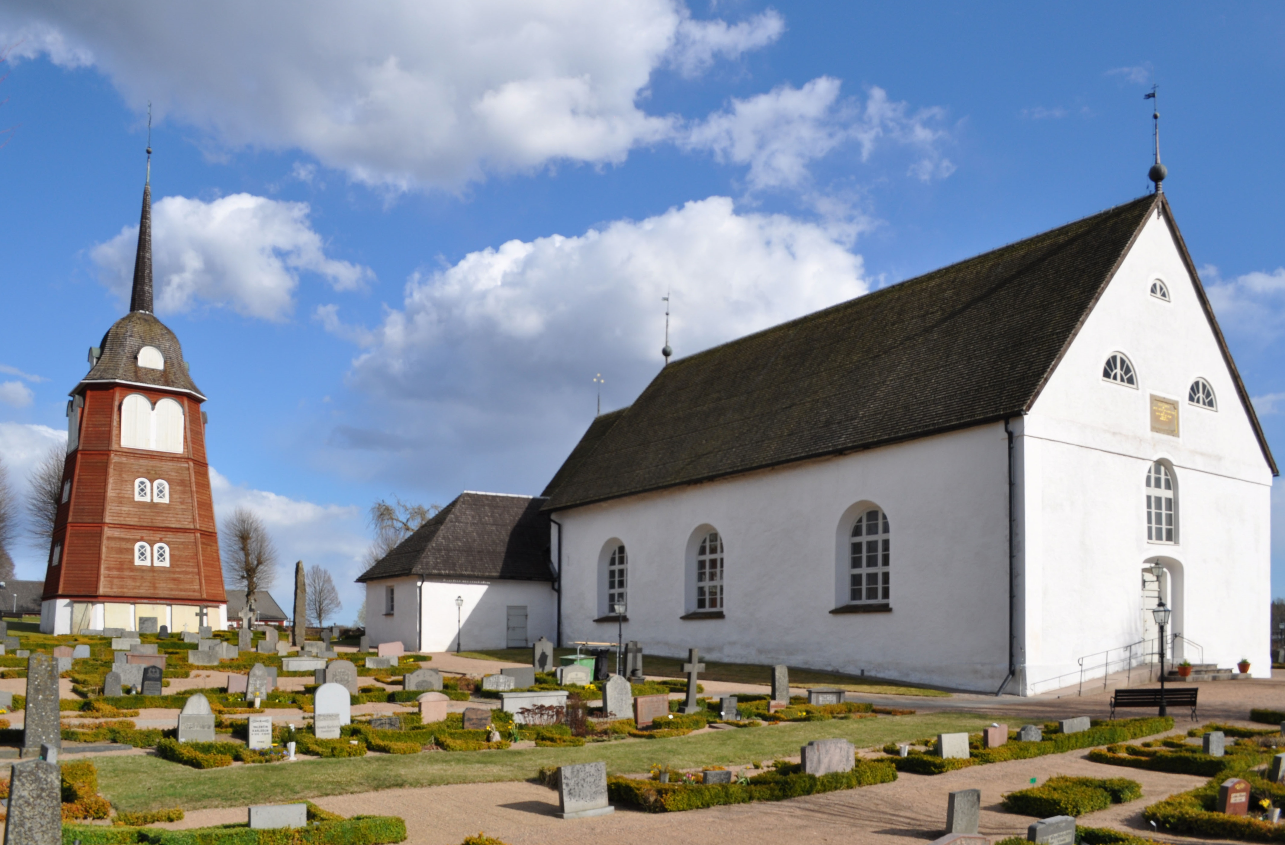 Fridlevstads church-kyrka